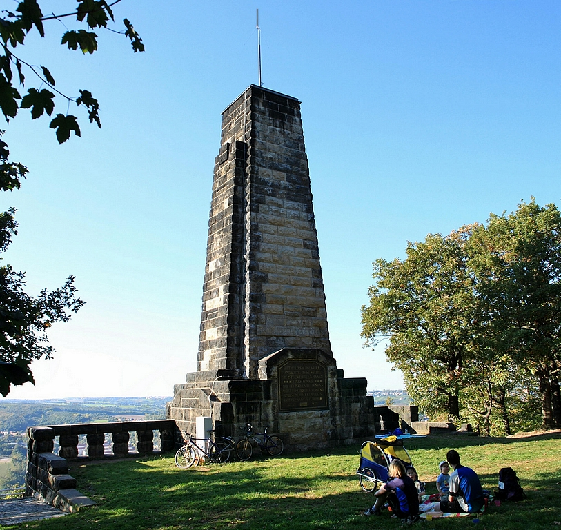 This image shows the memorial for King Albert of Saxony on top of the Windberg (353 metres) in Freital.